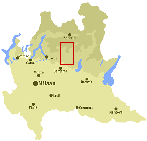 Position of the valley Valle Seriana